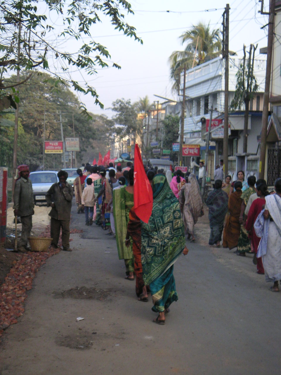 CPI(M) rally in Agartala, Tripura. Photo: Soman